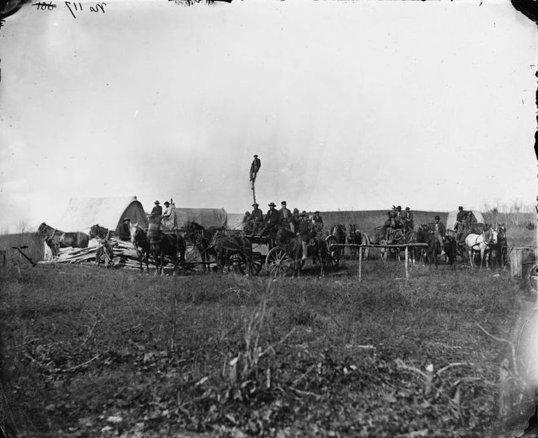 Brandy Station, Va. Wagons and men of the U.S. Military Telegraph Construction Corps